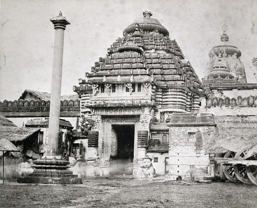 The Singhadwara , the main entrance to the Jagannath Temple in Puri